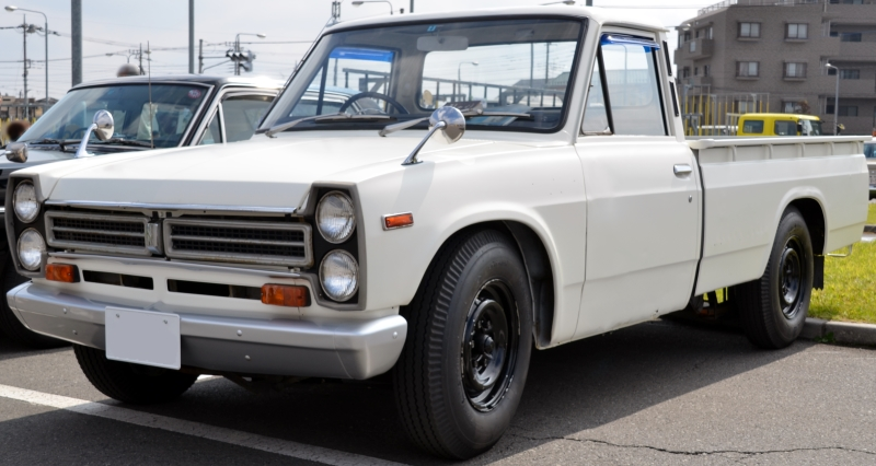 Nissan Junior